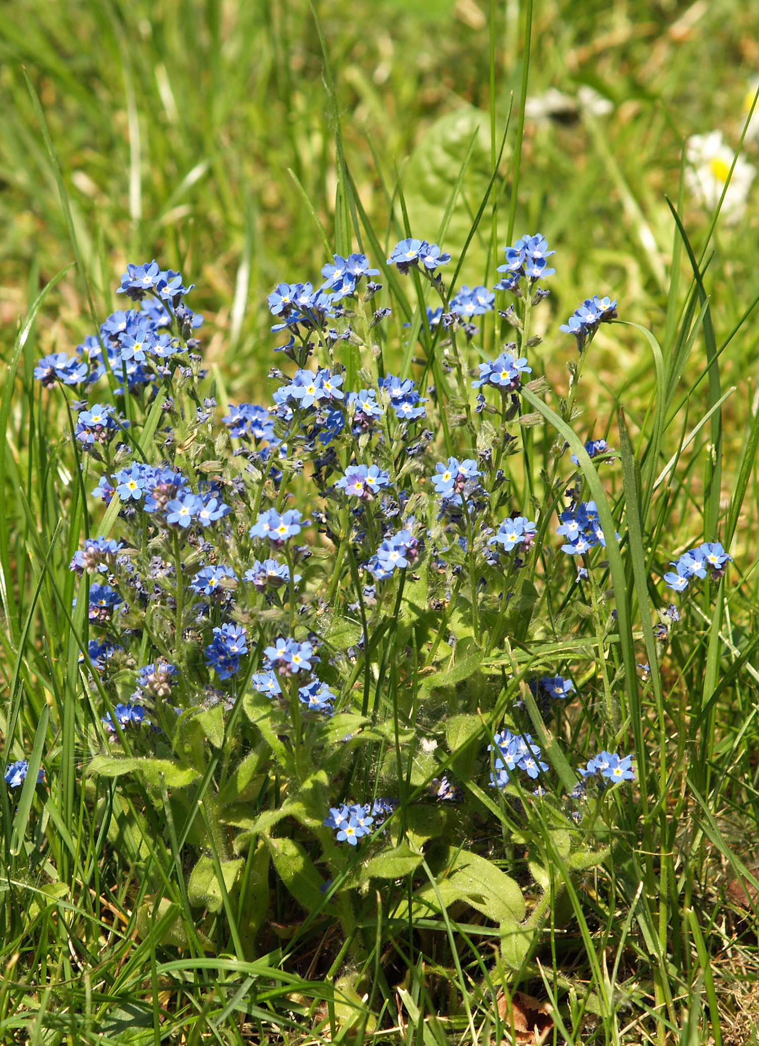 unknown Forget-me-not (Myosotis spec.), Chemnitz, Germany